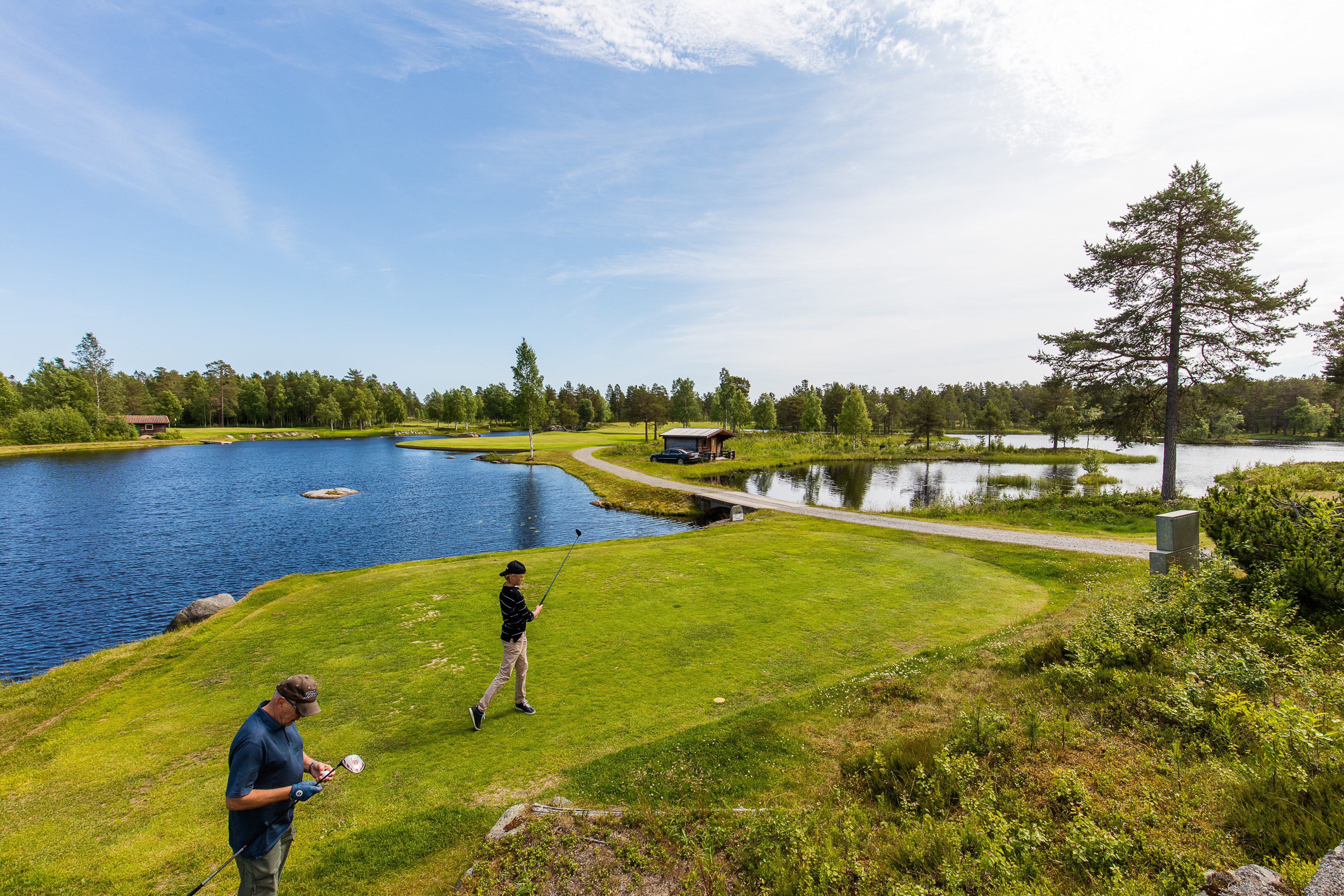 Norrmjöle golf, by the seaside some 29 kilometres south from Umeå.